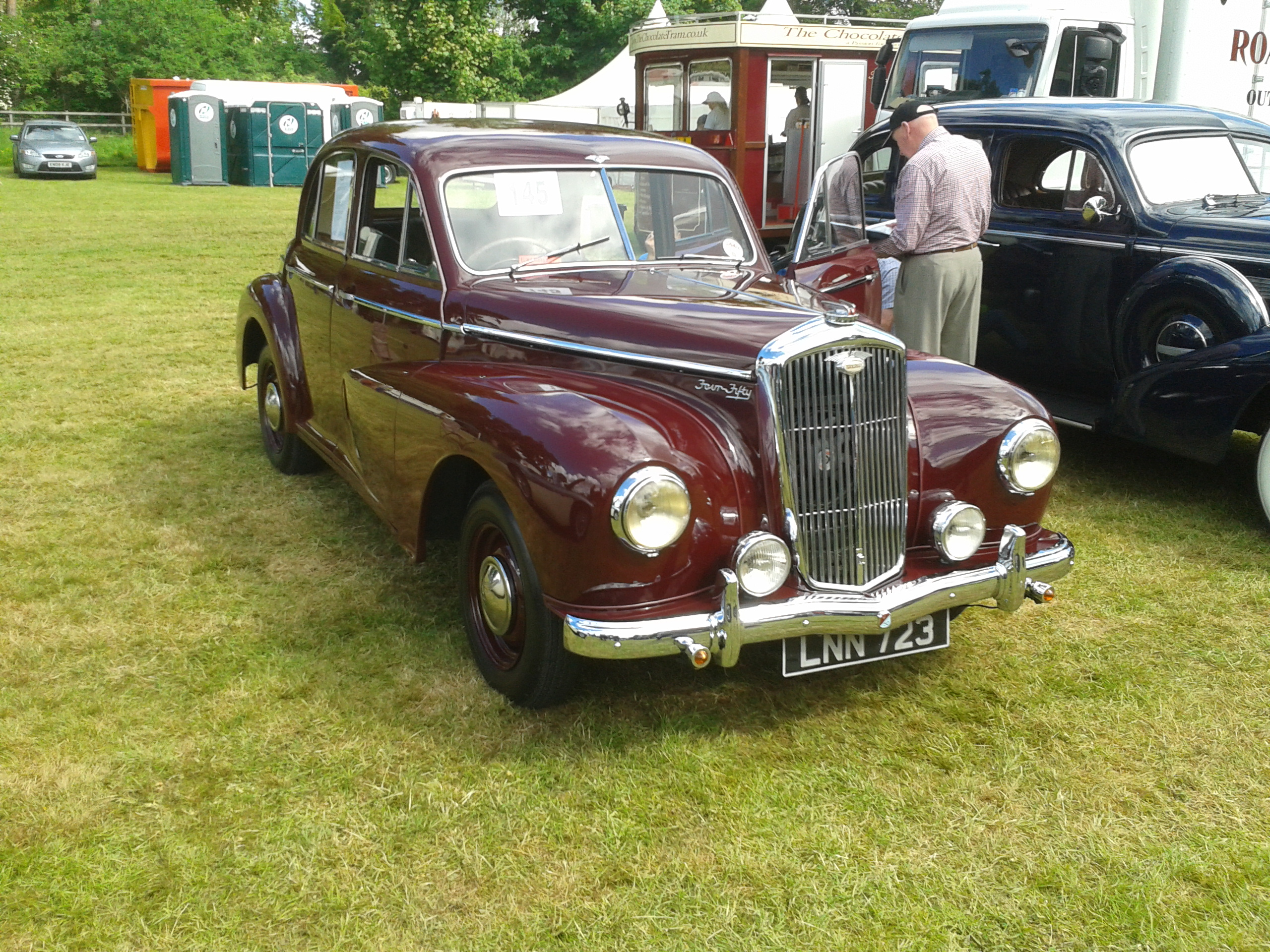 Wolseley Four Fifty 1950(DVLA) first registered 25 May 1950, 1476cc